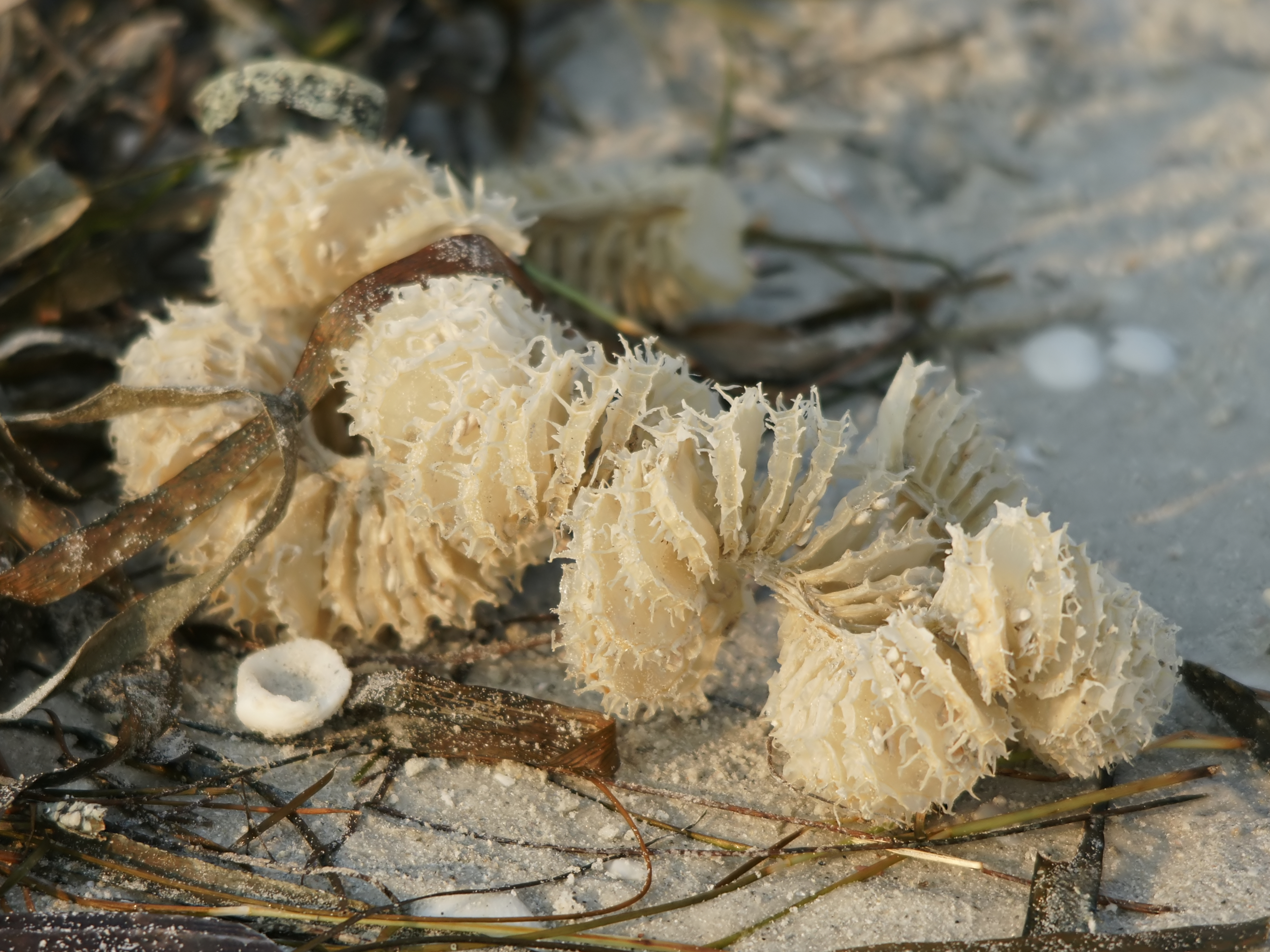 Lightning whelk egg case at Sanibel Island in Lee County, Florida, U.S.A. With defensive purple dye.